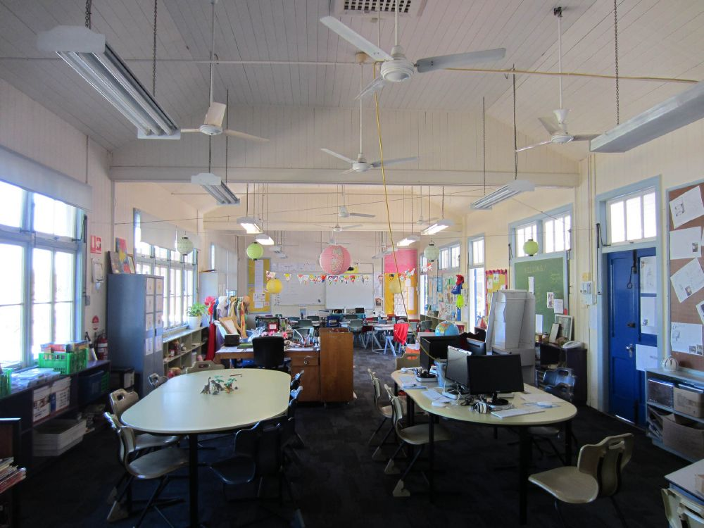 Sectional School Building (Block B); classroom interior, view from east (EHP, 2 June 2015)